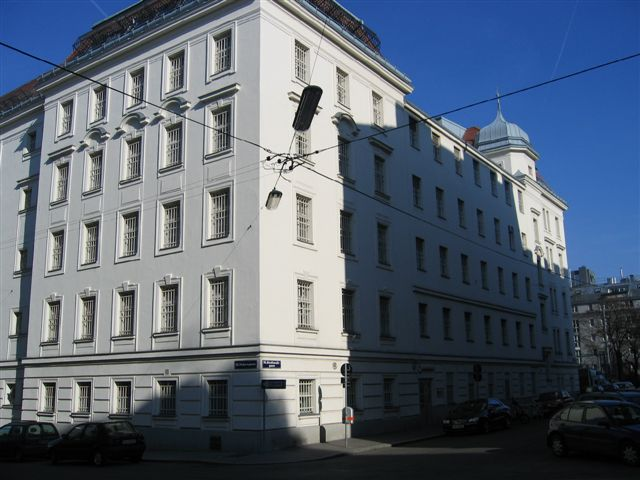 The building of the district court and penitentiary Favoriten (Vienna, Austria). Pictured is the penitentiary-part of the building.